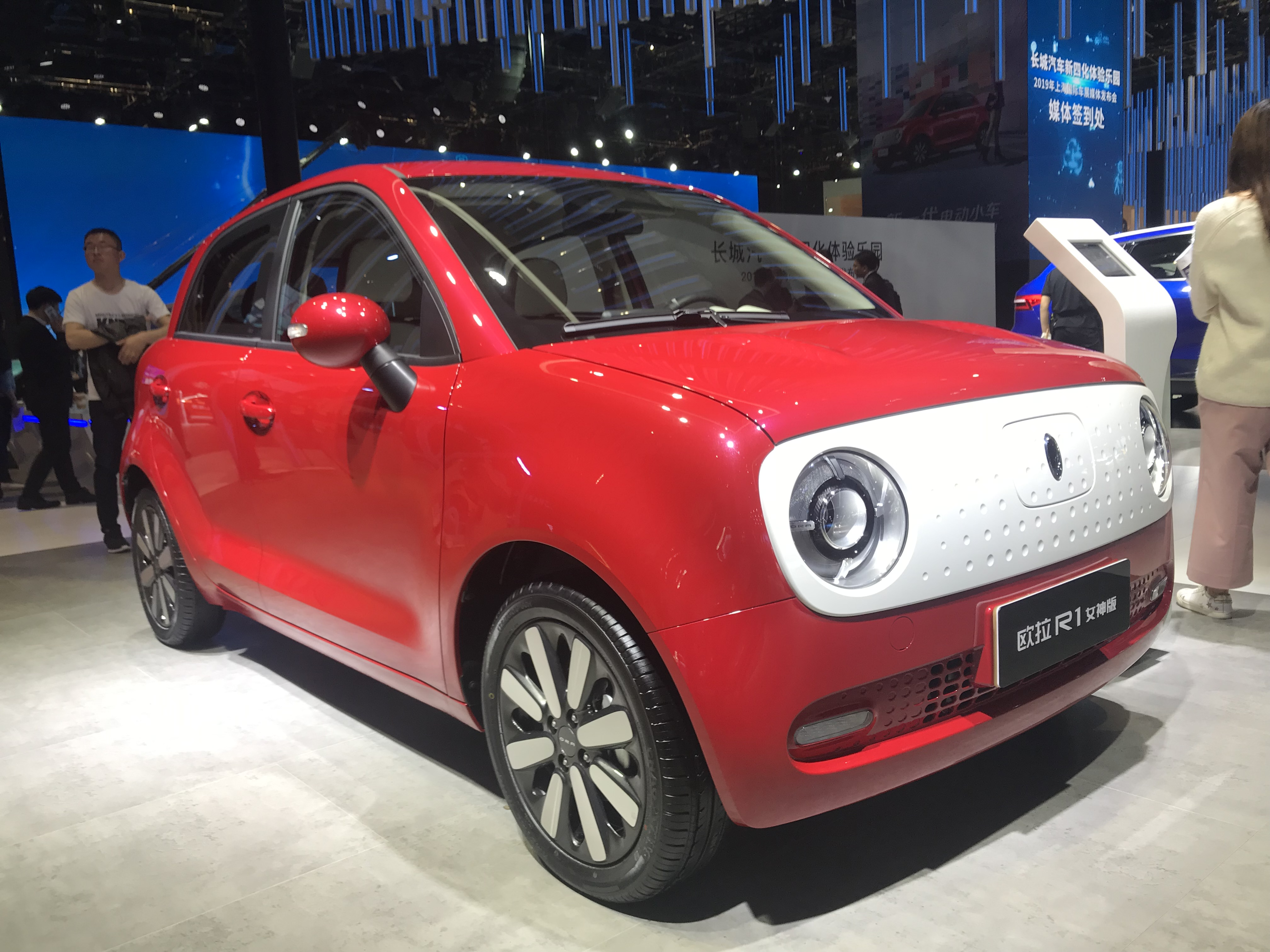 Ora R1 front